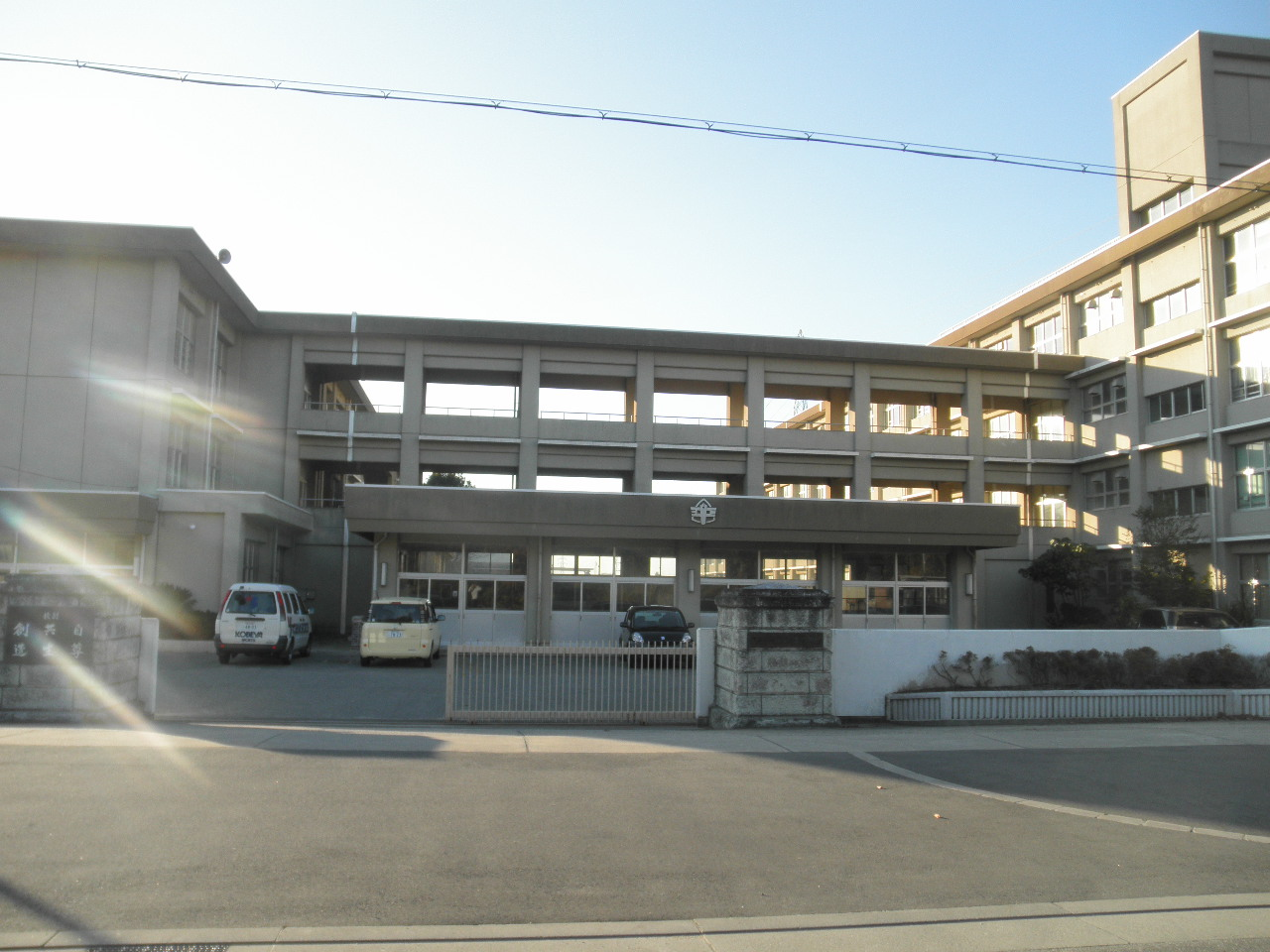 Jiyugaoka Junior High school